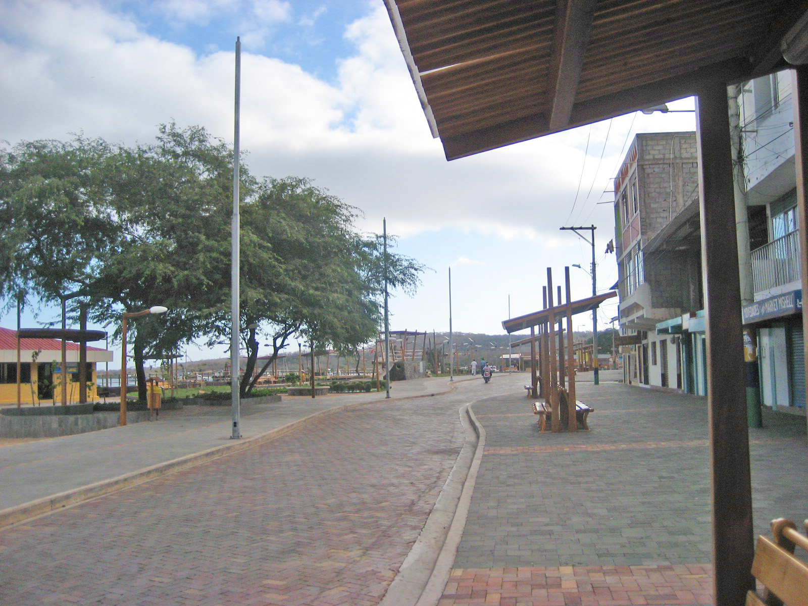 Main street in San Cristoban